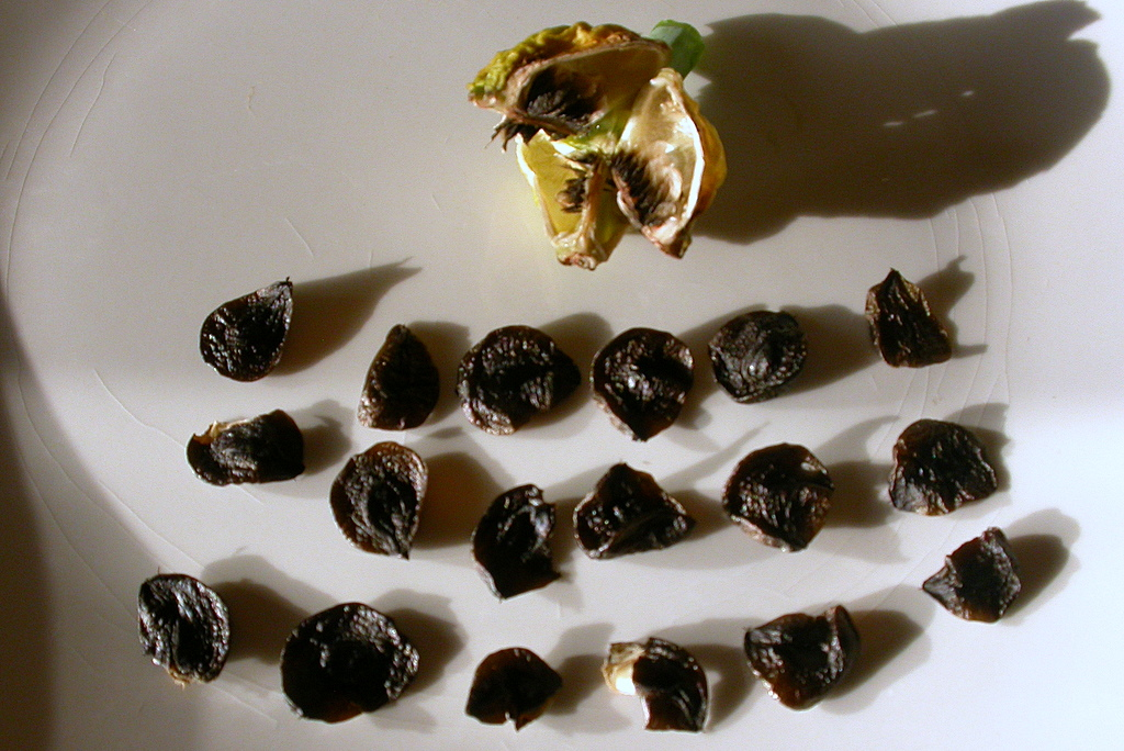 Graines d'hippeastrum - Hippeastrum seeds